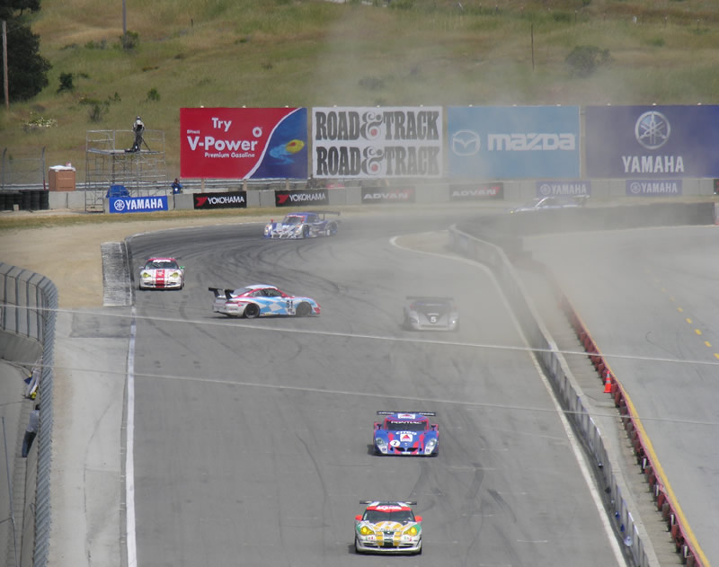 Grand American Rolex Sports Car Series racing action from the Road & Track 250 race at Mazda Raceway Laguna Seca, May 1, 2005.